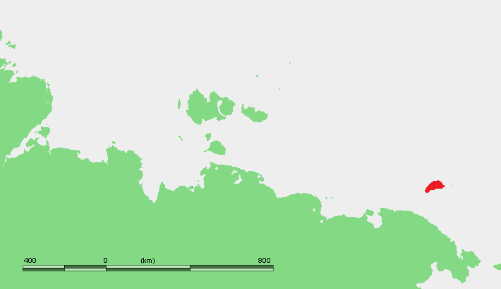 Wrangel Island - location map